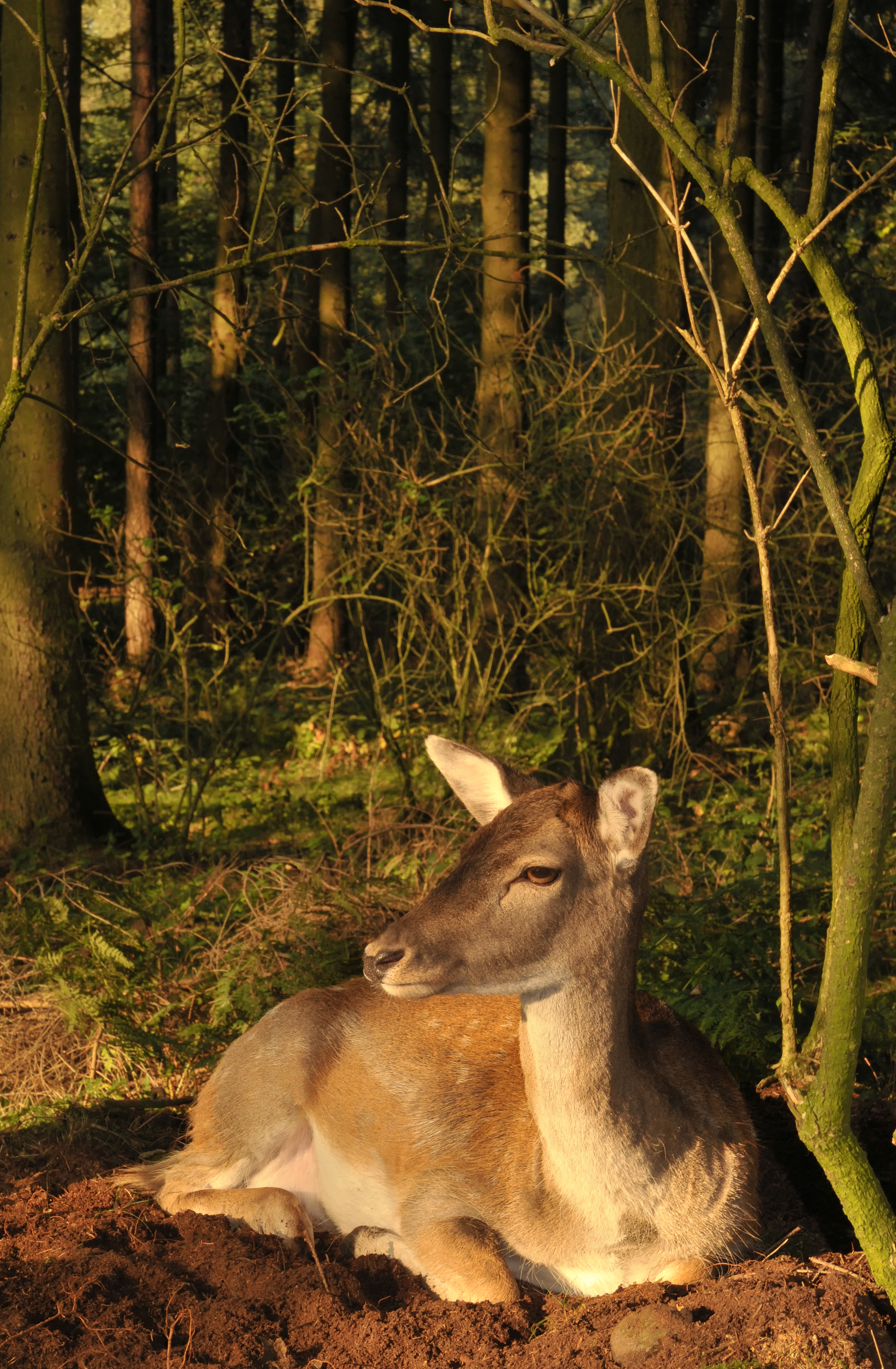 Fallow Deer (female) in the Lüneburg Heath Wildlife Park near Nindorf, Hanstedt, Germany.